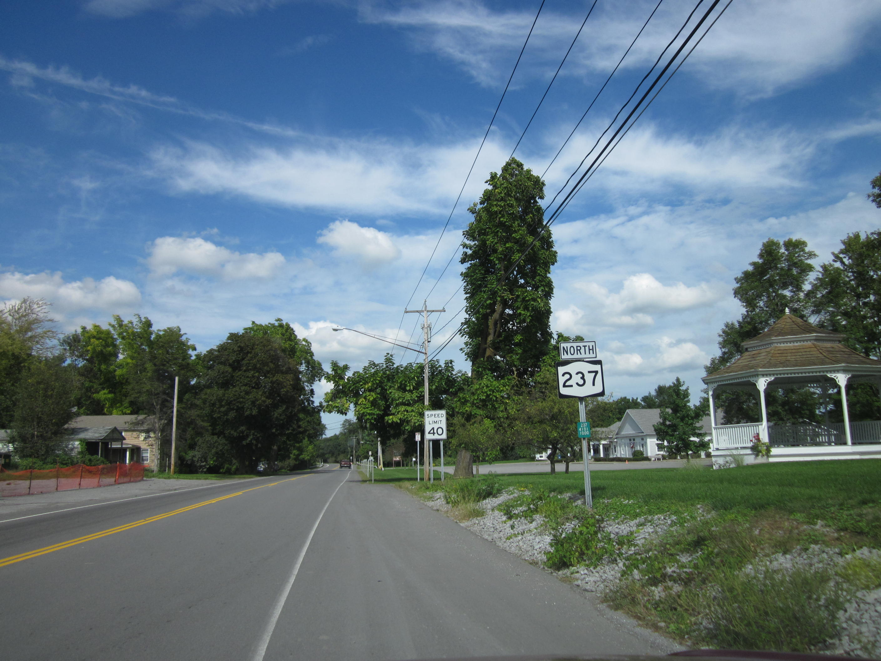 New York State Route 237 northbound just north of the junction with New York State Route 5 in Stafford.